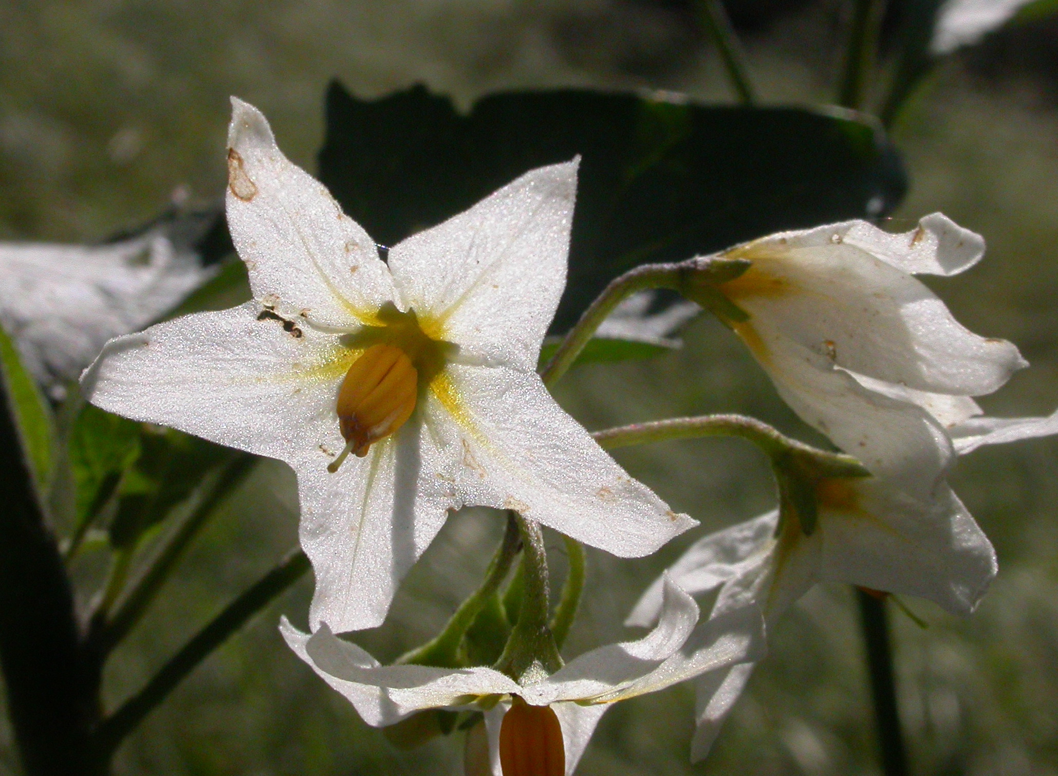 Solanum douglasii — Greenspot nightshade. Plant of California chaparral and woodlands habitats. In the Voorhis Ecological Reserve at California State Polytechnic University, Pomona, California